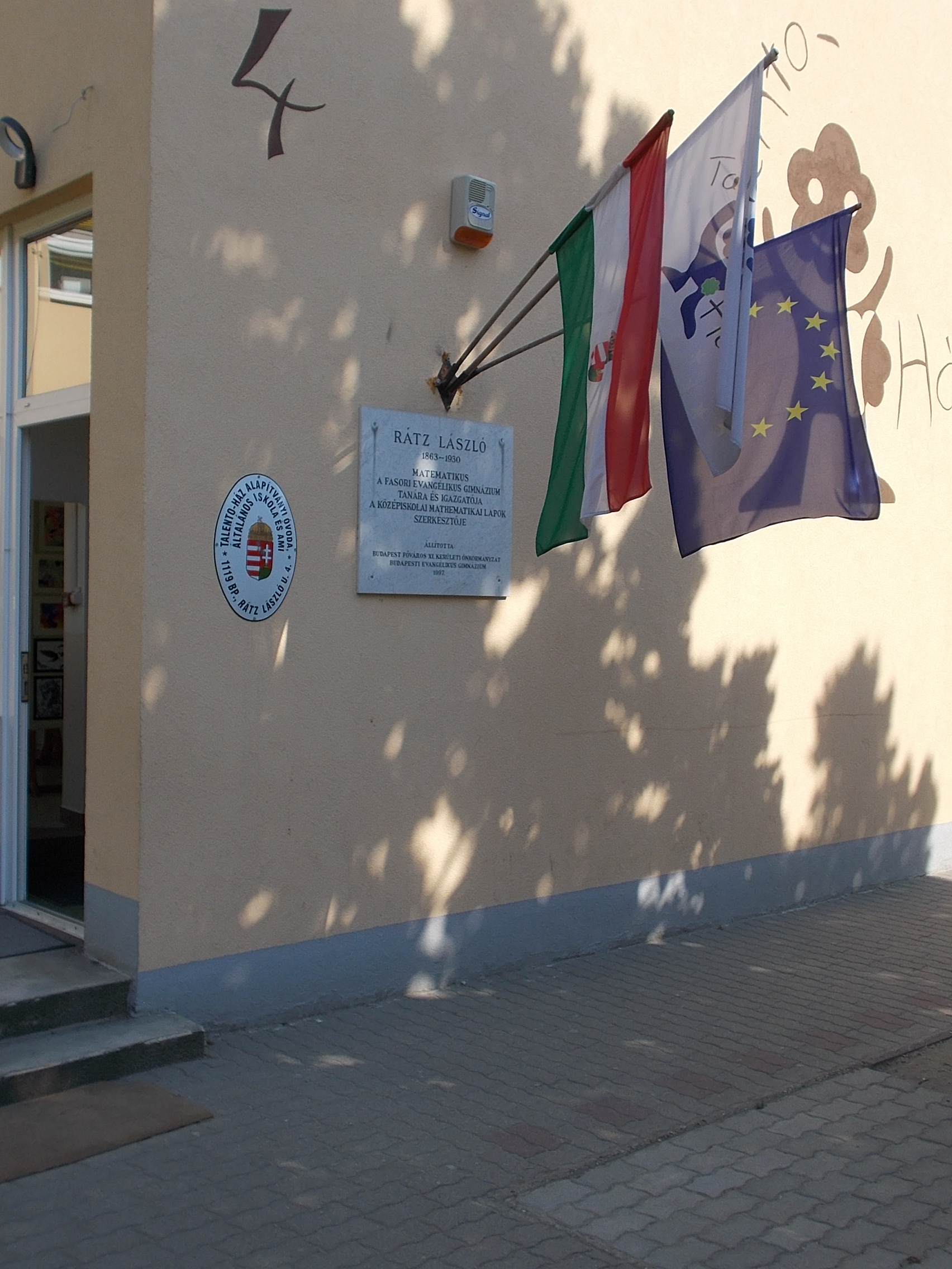 Talento-House Kindergarten, Elementary School and Elementary School of Art. - Rátz László street, 11th district of Budapest.